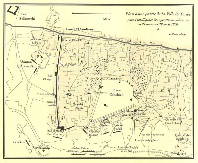 Fort Sulkowski